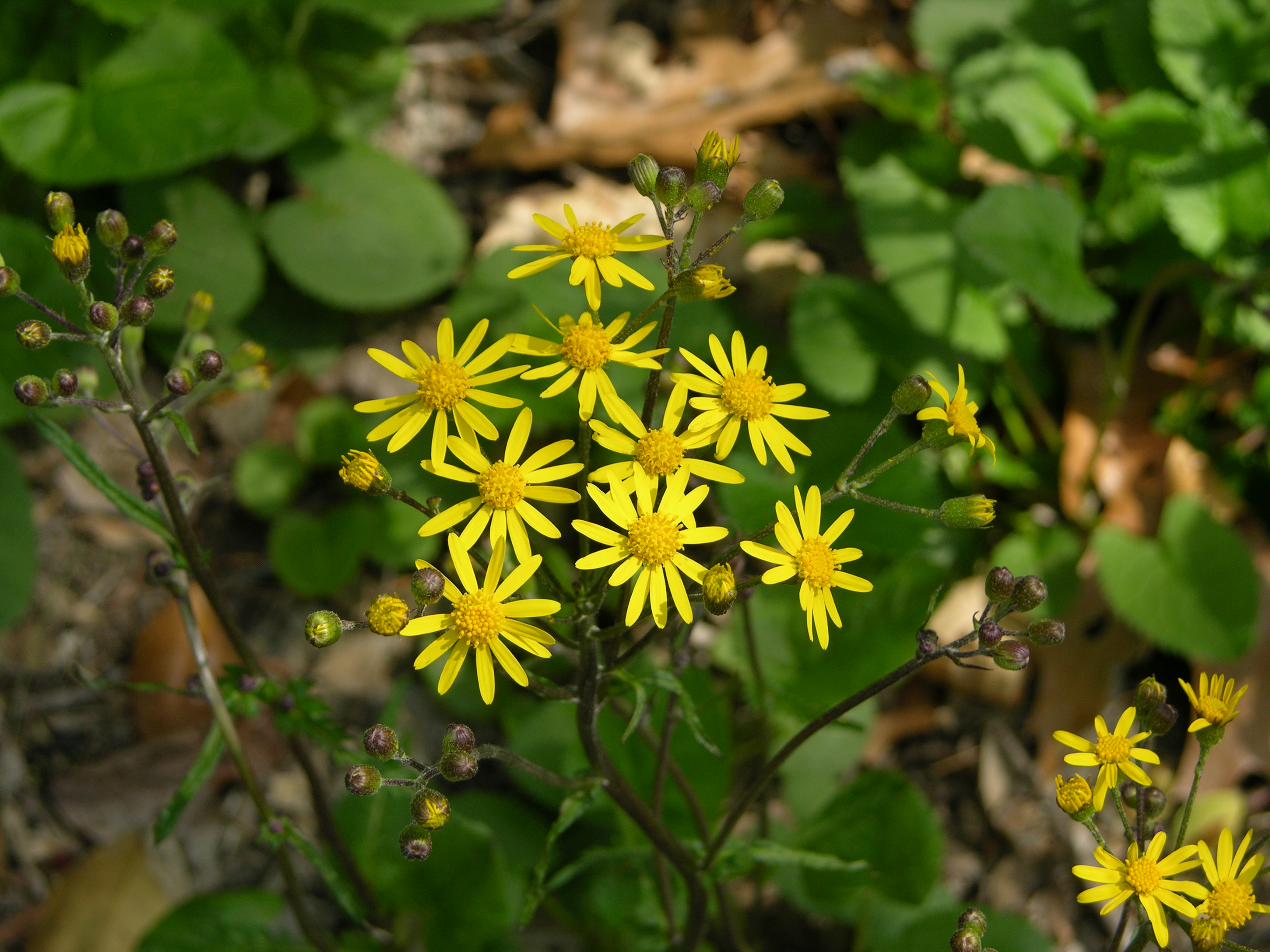 Packera aurea Photograph of the Golden Ragworten. Photo taken at the Mt. Cuba Center where it was identified.